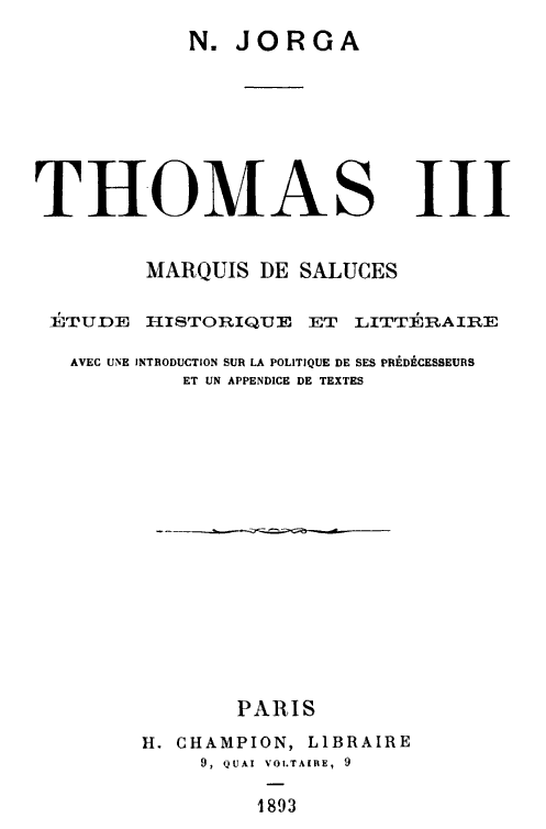 Nicolae Iorga - First page of Thomas III, marquis de Saluces: étude historique et littéraire, published by H. Champion Librairie, Paris in 1893.